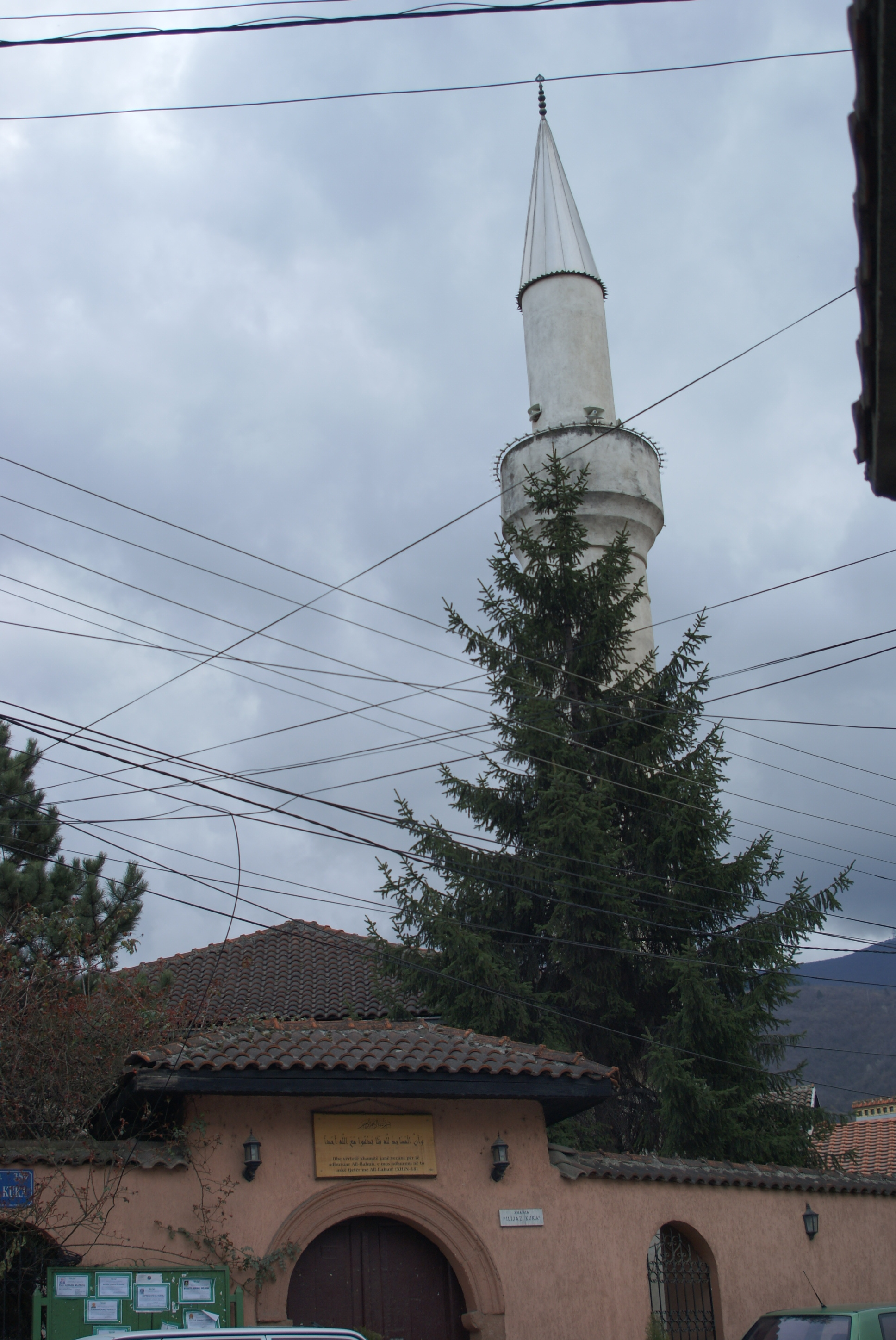 Xhamia e Ilijaz Kukes